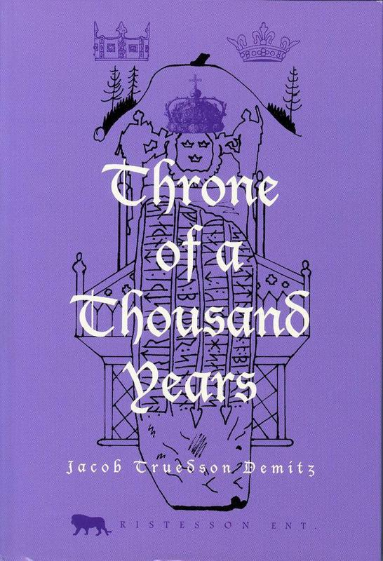 Dust cover (front) of 1996 book Throne of a Thousand Years, as released by Ristesson EntPlace: Stockholm, Sweden